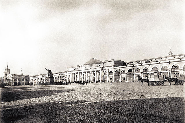 Old trade rows at the Red Square